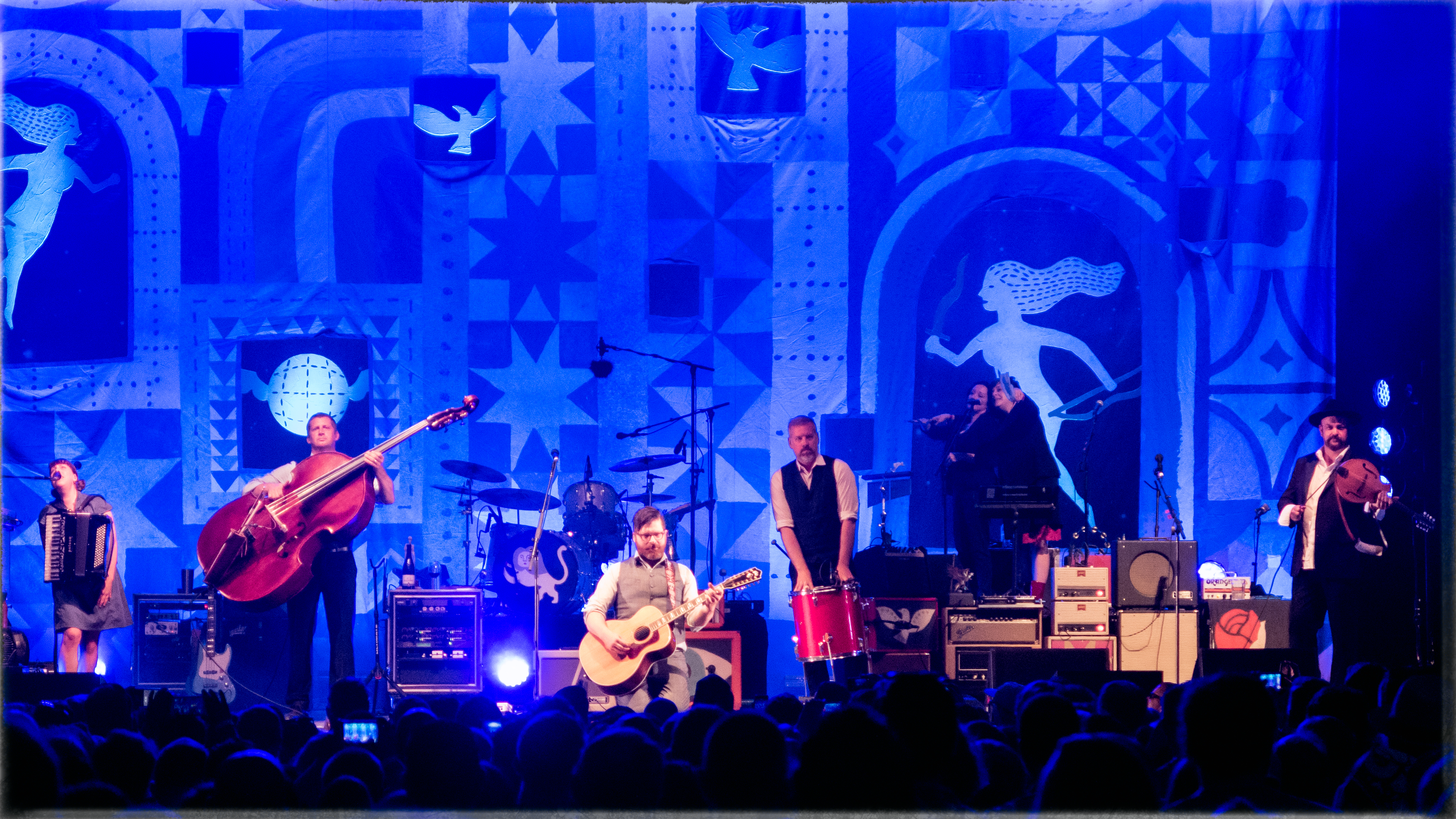 The Decemberists